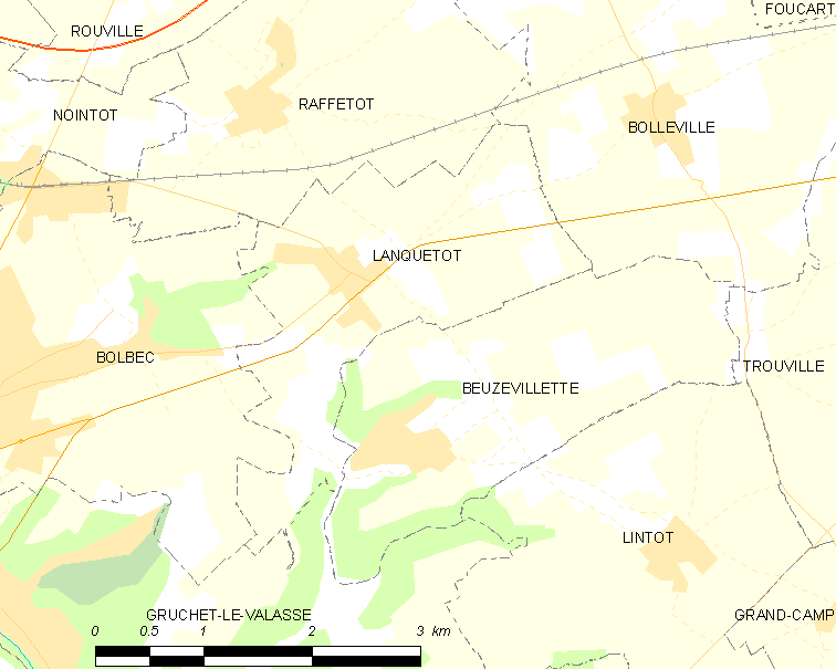 Map of French municipality Lanquetot